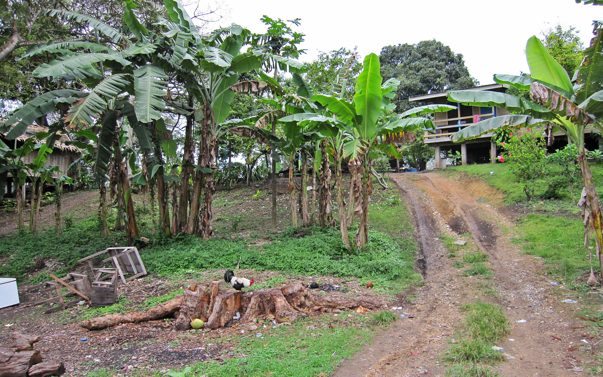 lungga,the mountain way